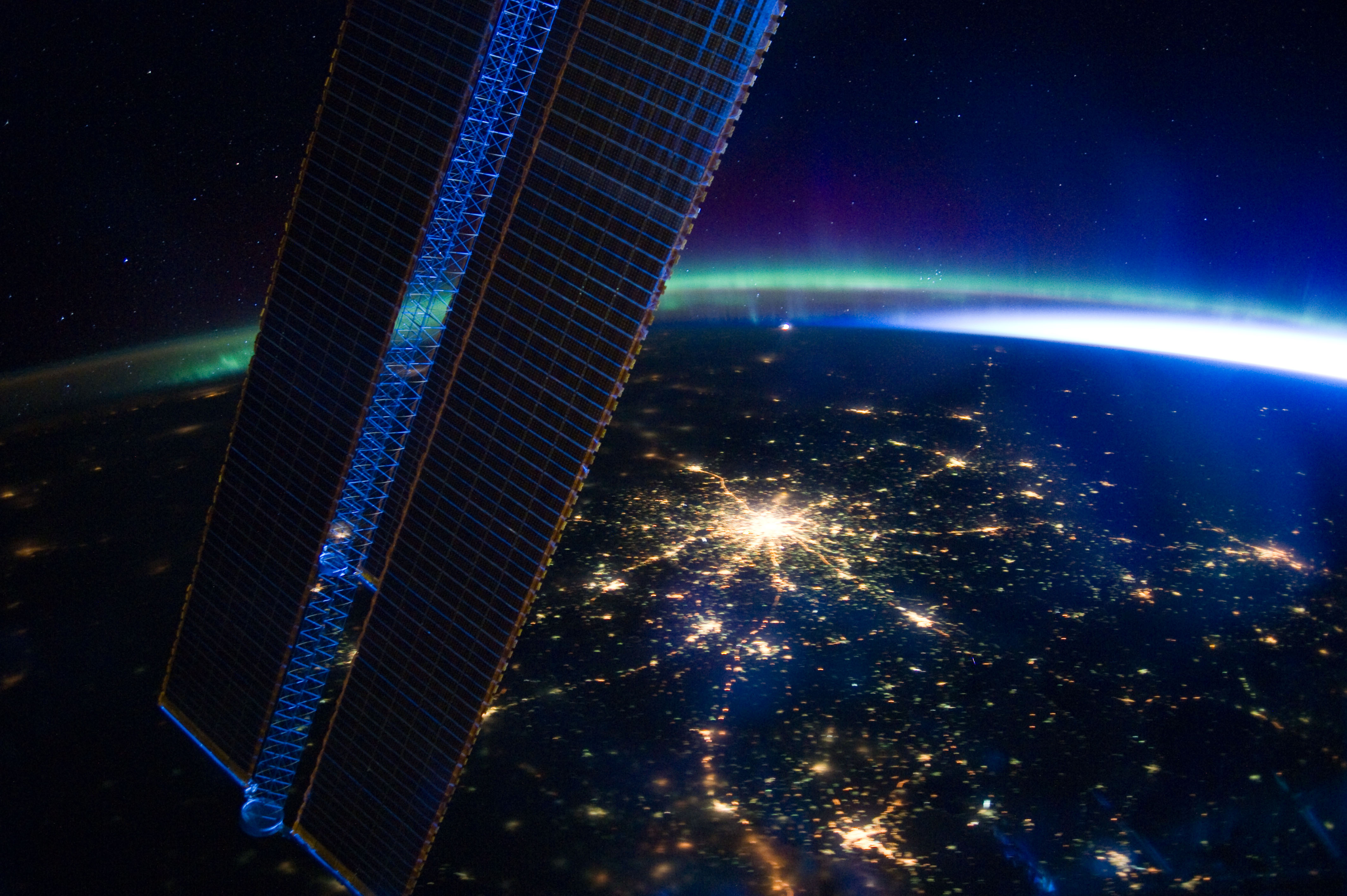 Moscow, Russia appears at the center of this nighttime image photographed by one of the Expedition 30 crew members aboard the International Space Station, flying at an altitude of approximately 240 miles. A solar array panel for the space station is on the left side of the frame. The view is to the north-northwest from a nadir of approximately 49.4 degrees north latitude and 42.1 degrees east longitude, about 100 miles west-northwest of Volgograd. On the horizon in the background can be seen a small sample of Aurora Borealis, airglow and daybreak.